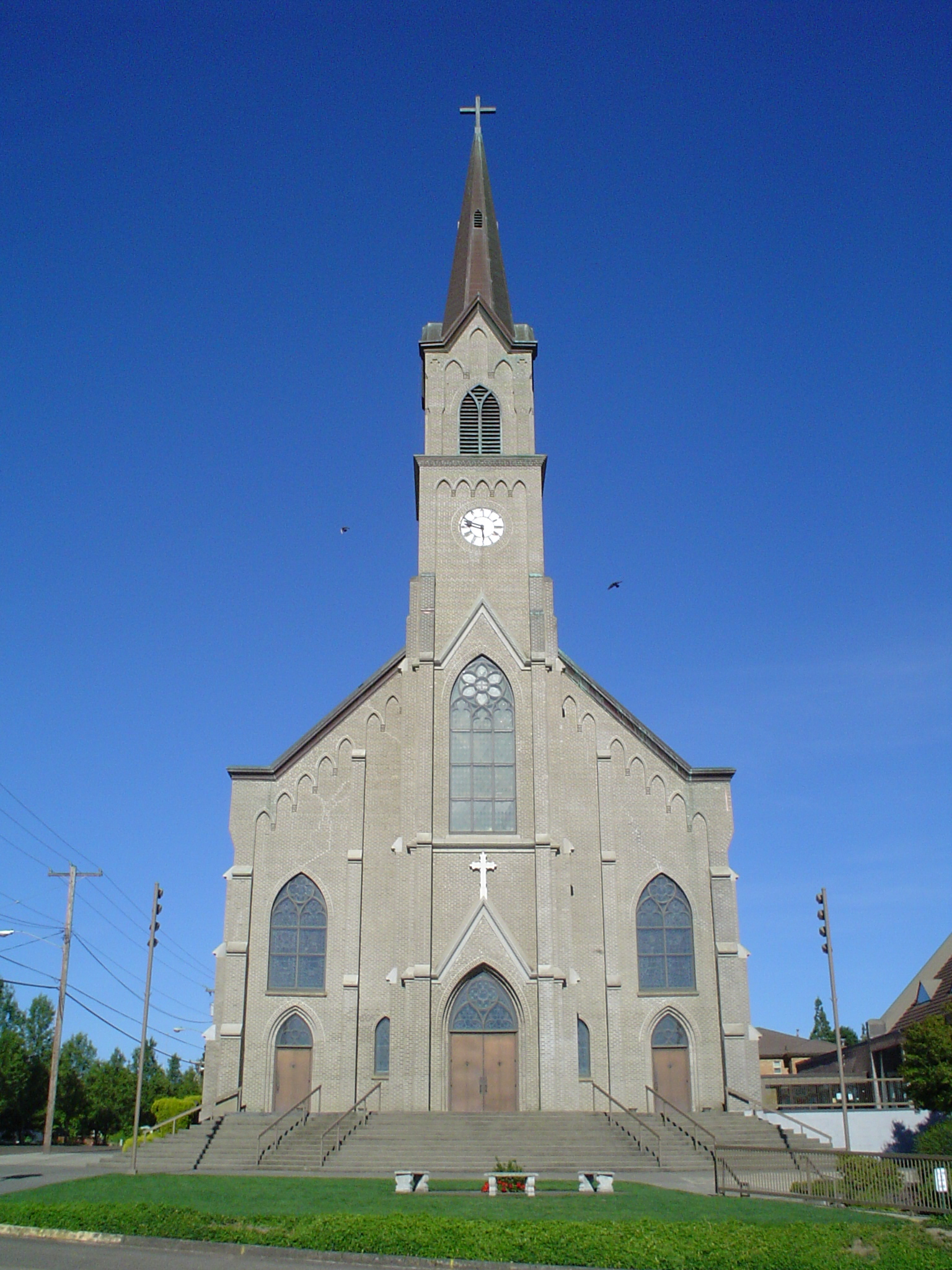 I took this picture. I hereby release the copyright.